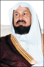 One of the last photos taken of fahad abdullah alowaidah.